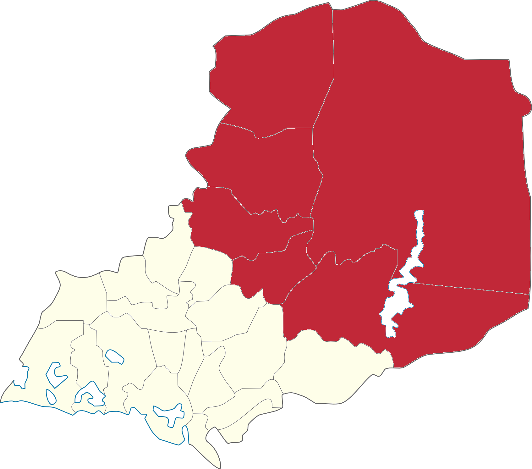 Location of 3rd Legislative district of Bulacan, Philippines